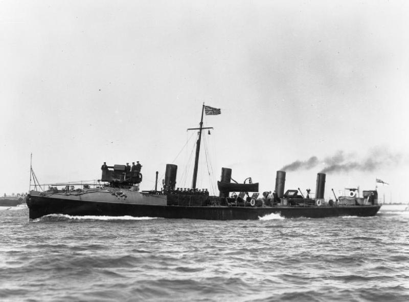 Photograph of British destroyer HMS Ferret.